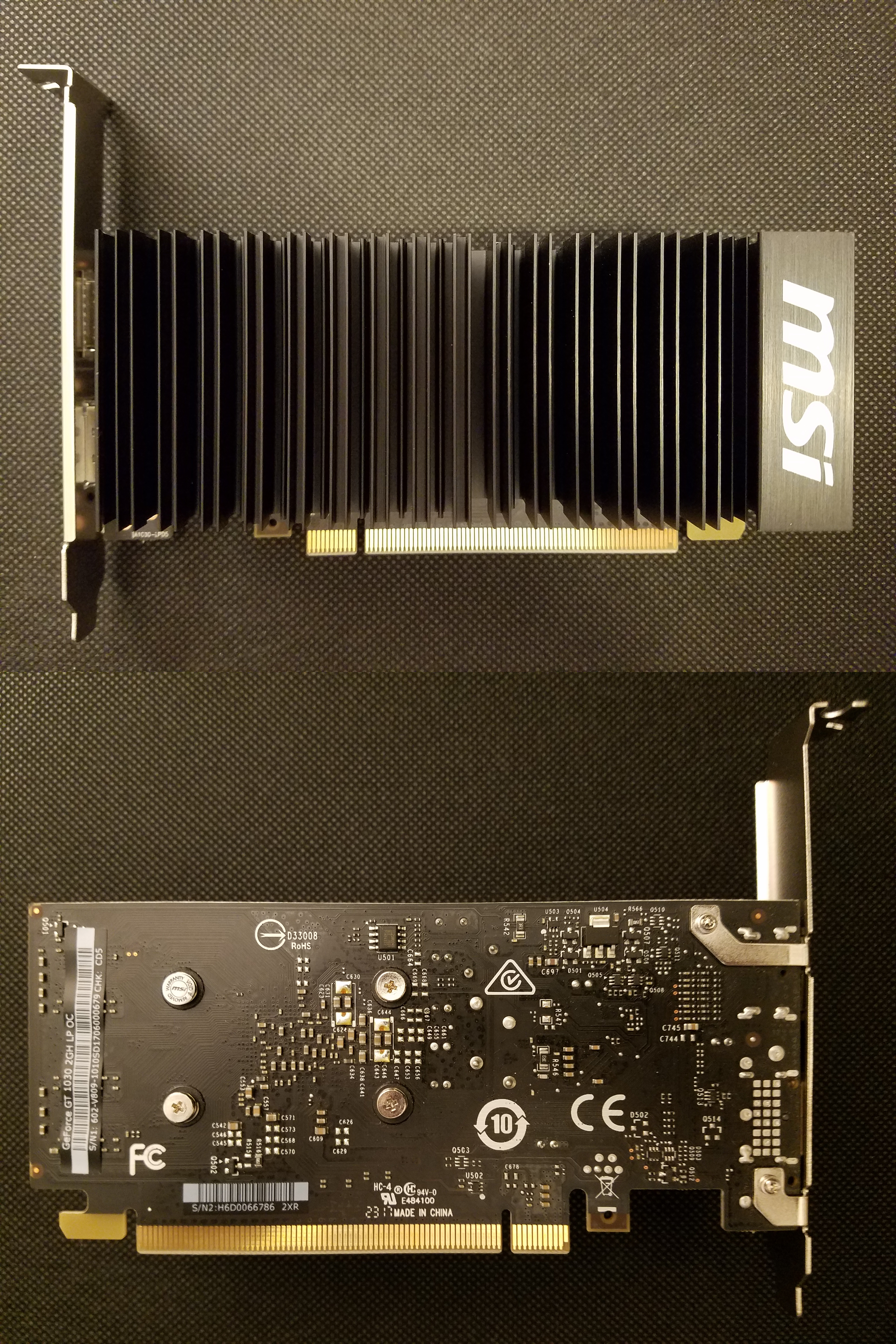 MSI GeForce GT 1030 2GH LP OC with passive cooling. Its Gpu frequency is between 1265 MHz and 1518 MHz depending on use, its memory is 2 GB GDDR5 that operates at an equivalent of 6008 MHz. In early 2018 it cost about 80 €.